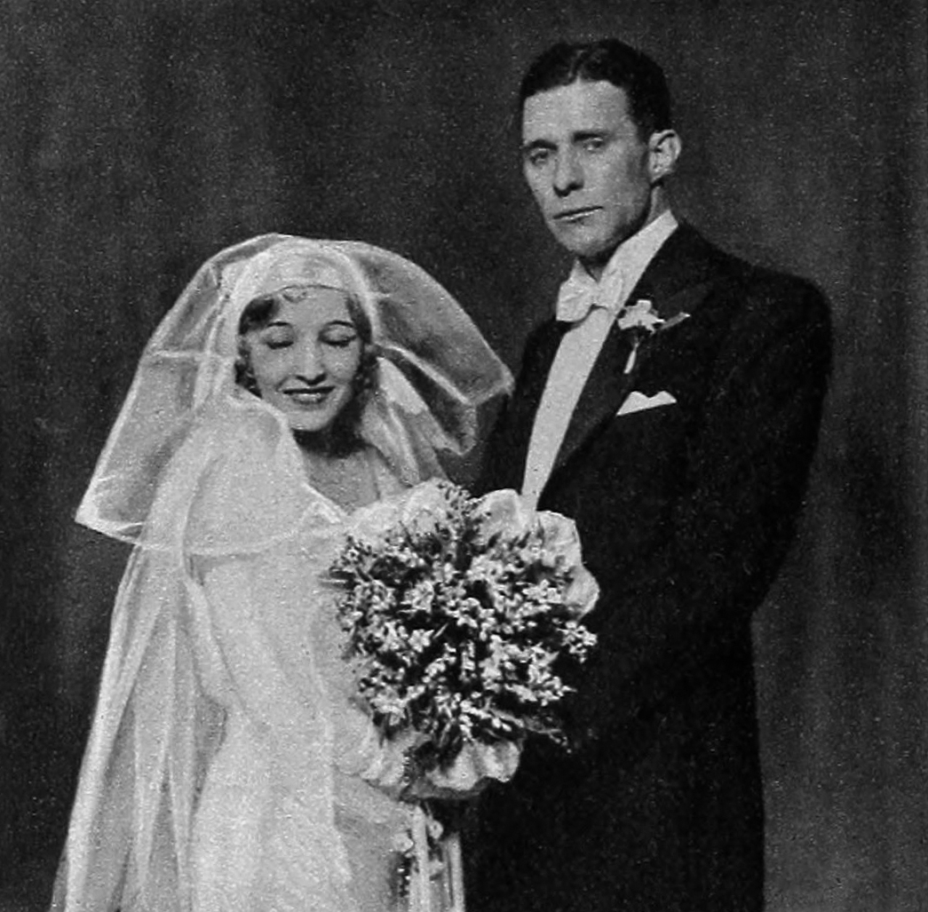 Wedding portrait of Bessie Love and William Hawks, married on December 27, 1929